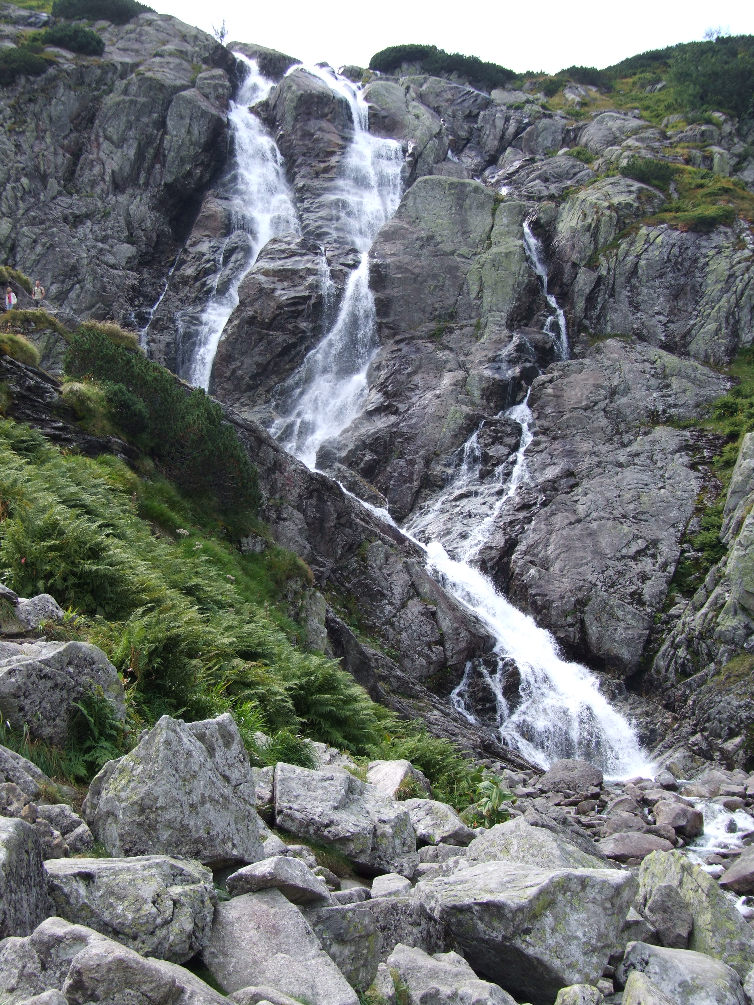 Wielka Siklawa waterfall on Roztoka stream (Roztoki Valley in High Tatras, Poland)